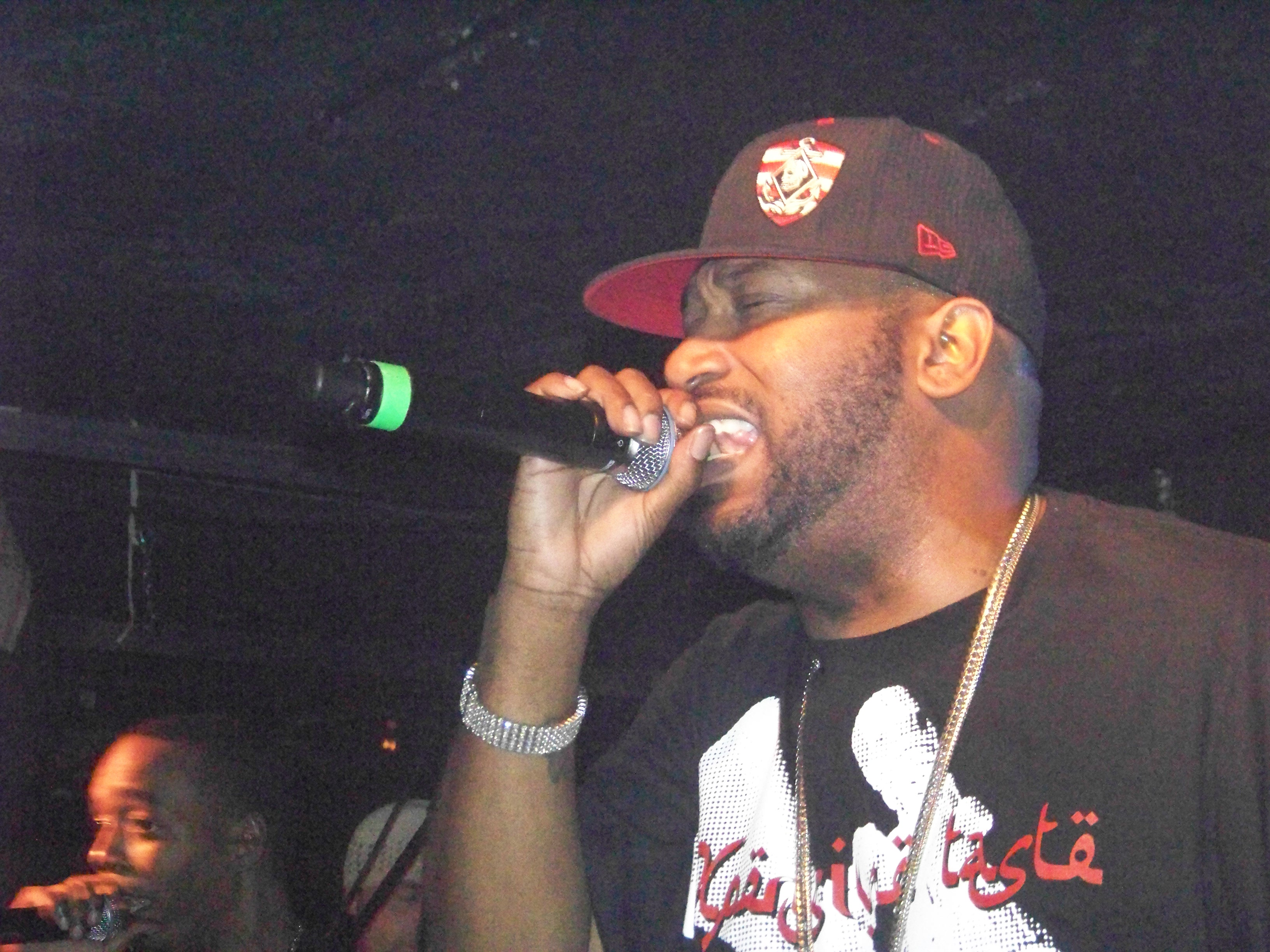 Bun B, American rapper.